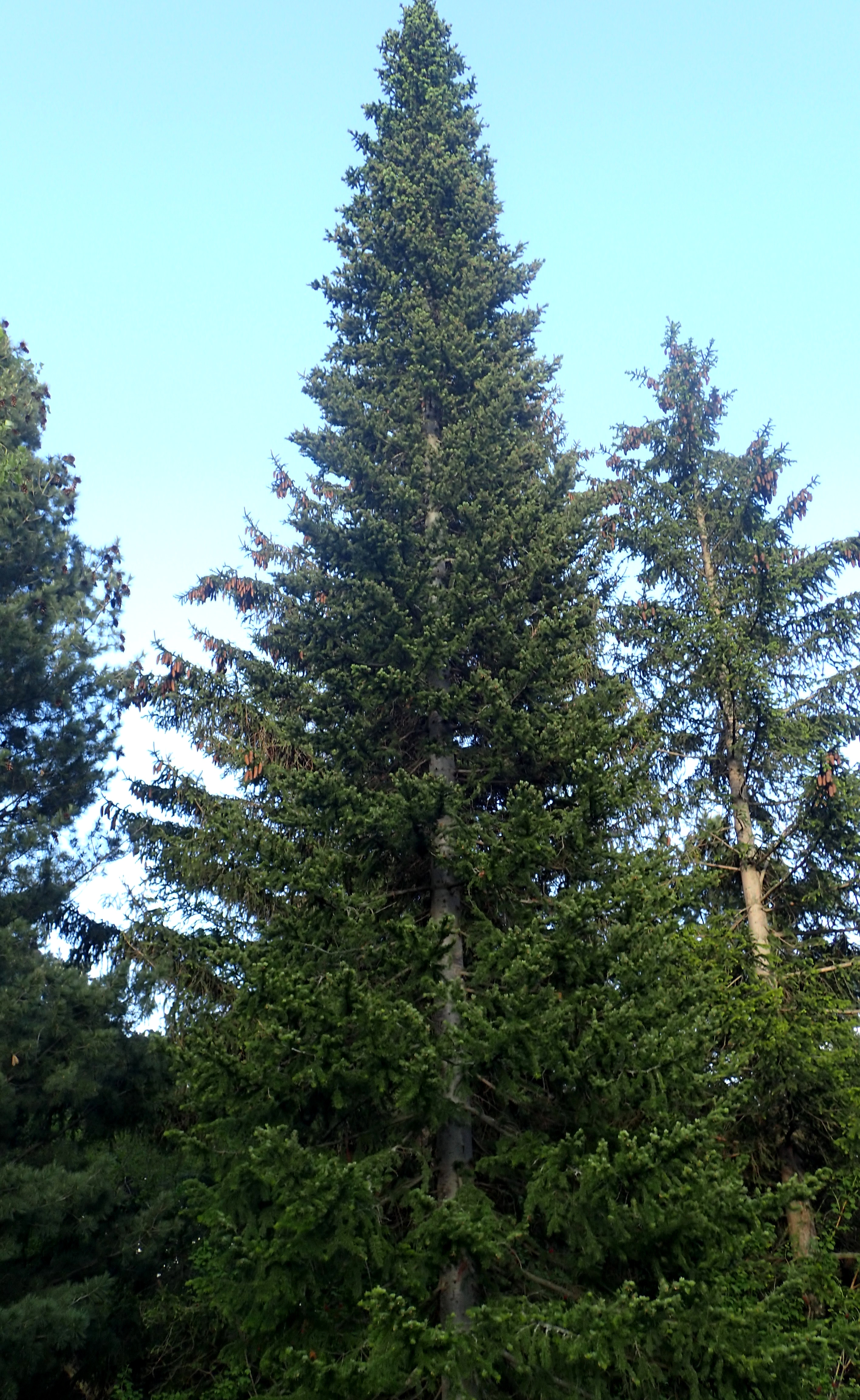 Abies sibirica in Sevan Botanical Garden